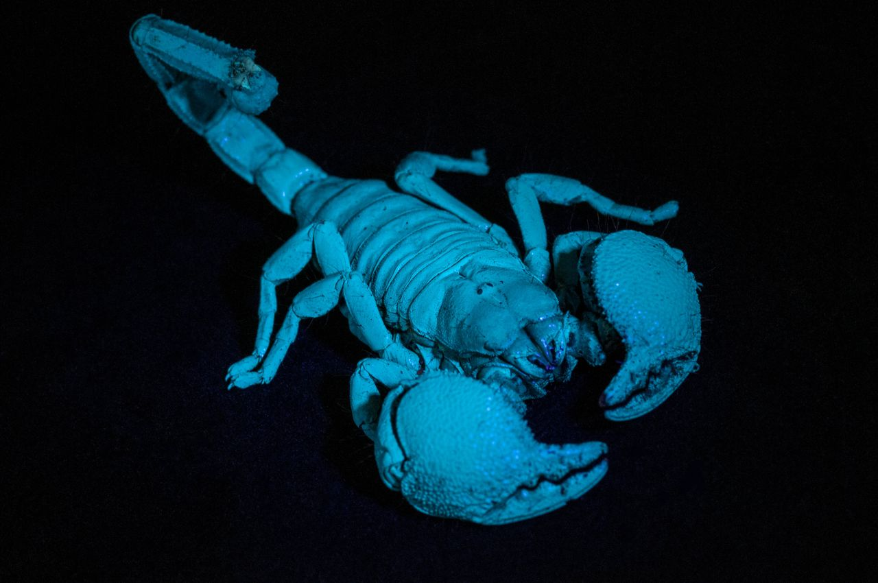 This emperor scorpion or imperial scorpion (Pandinus imperator) is a species of scorpion native to Africa. Emperor Scorpions fluoresce a greenish blue under black (UV) lights, as shown in this image.